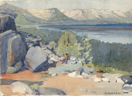 Lake Tahoe